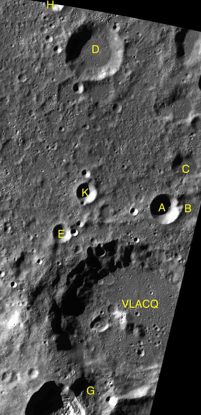 Part of the chart LAC-127 used for the presentation